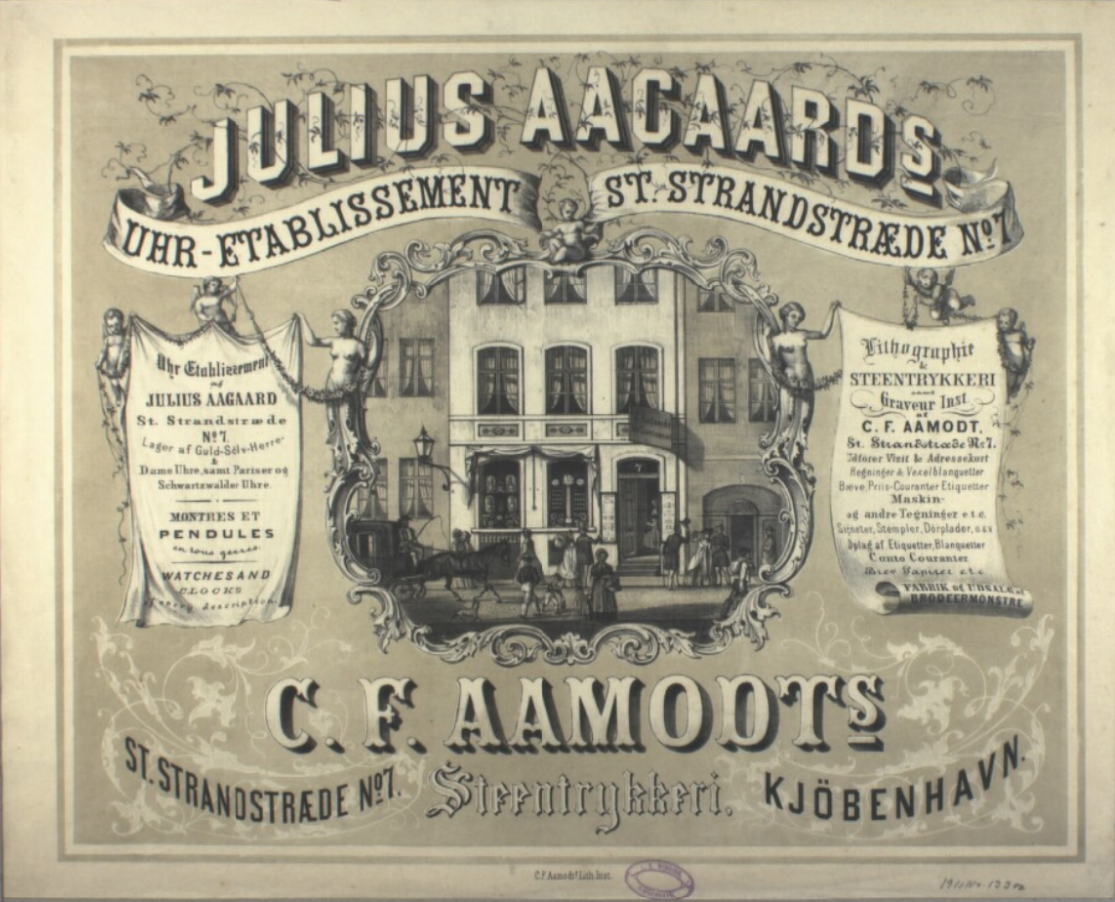 Store Strandstræde 7 in Copenhagen, Denmark: Julius Ågård, uretablissement og C. F. Åmodt, lithografi og stentrykkeri